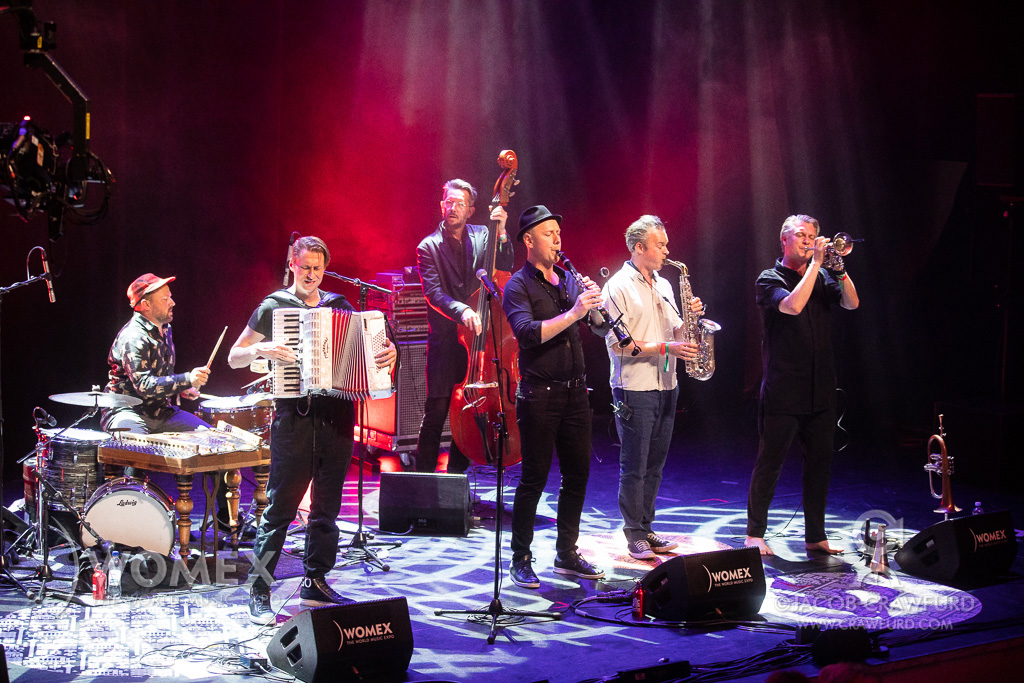 Womex. Always credit the photographer and include a link to when using this photo. For high resolution photos please